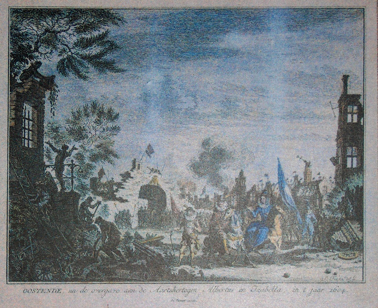 Siege of Ostend (1601-1604) by Spanish troops; surrender to Archduke Albert VII and Isabella